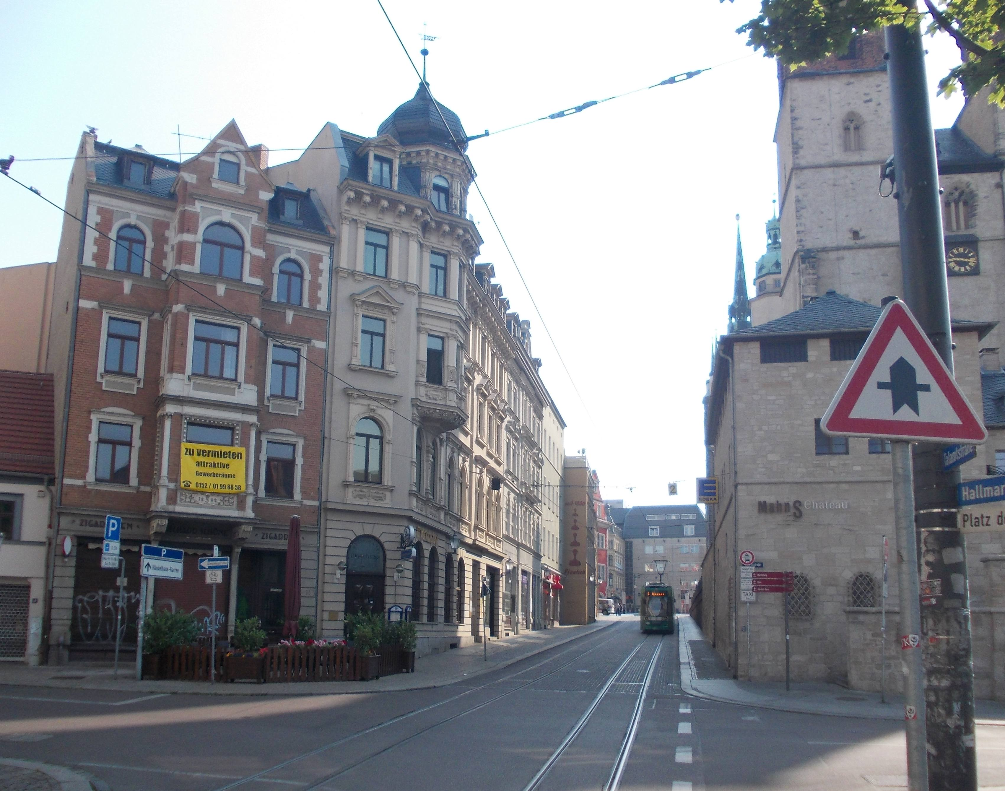 Talmatstrasse in Halle/Saale (Saxony-Anhalt)